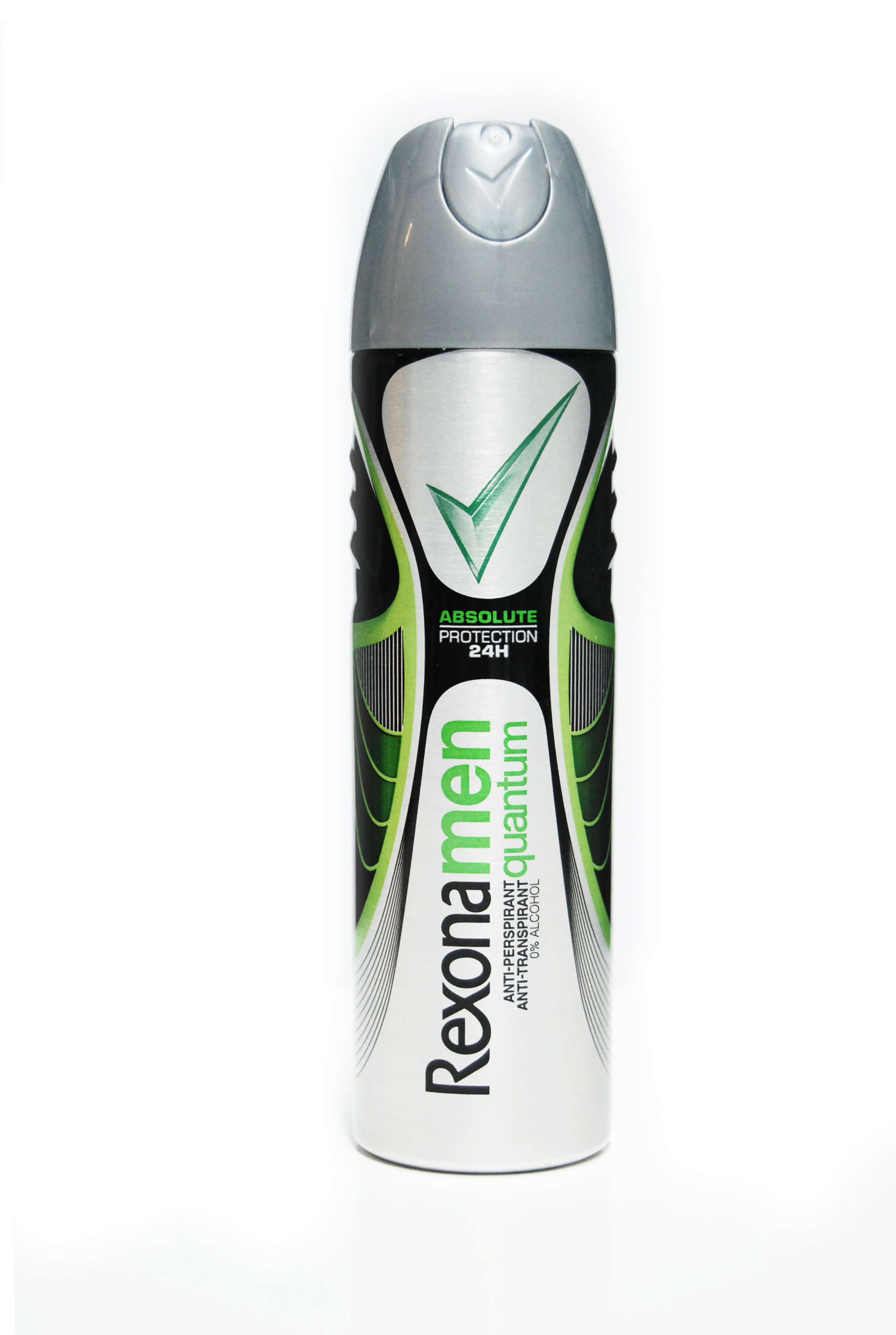 Rexonamen Quantum